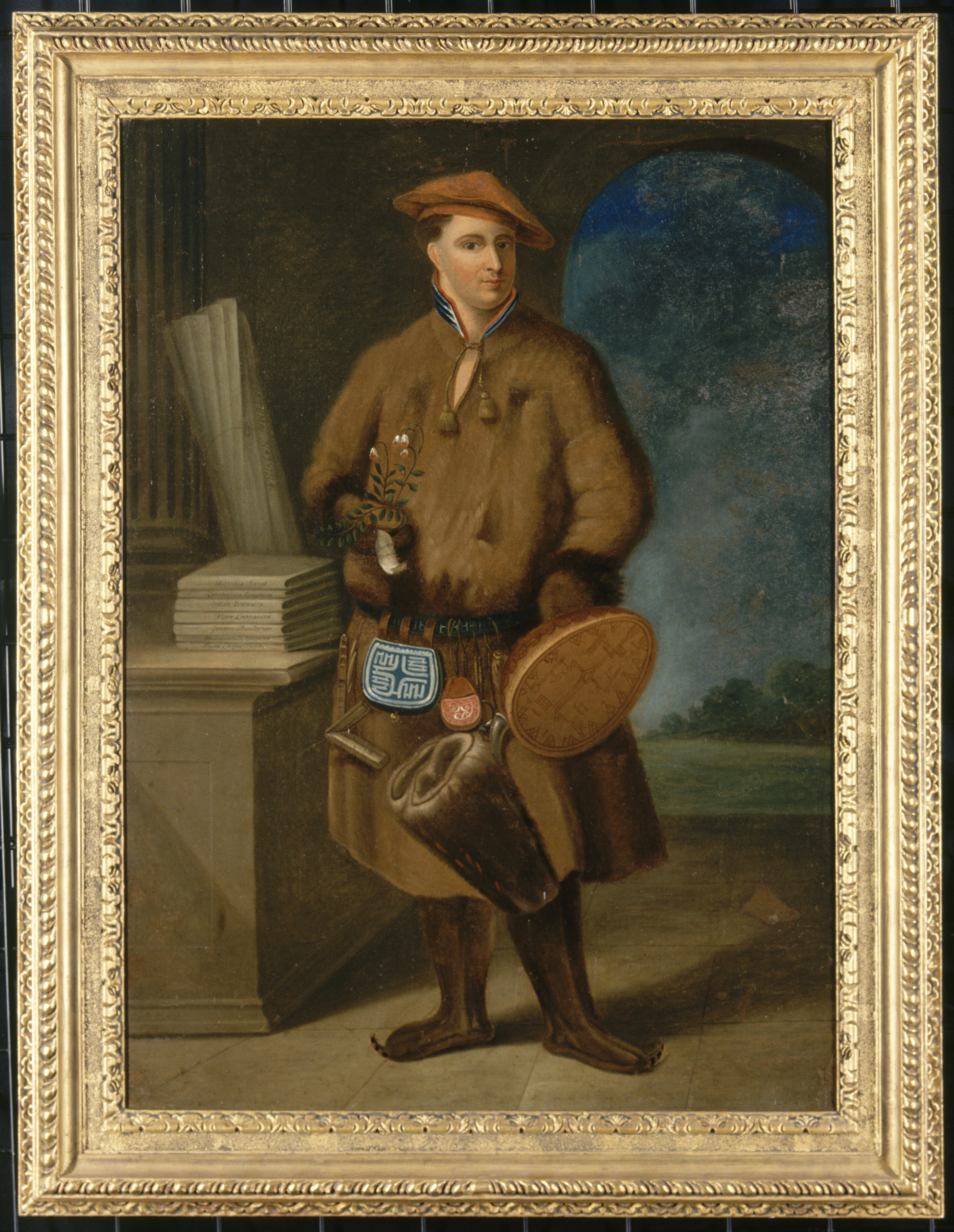 Carolus Linnaeus (1707-1778) in Lappish dress. Oil painting after Martin Hoffmann. Iconographic Collections Keywords: Martin Hoffmann